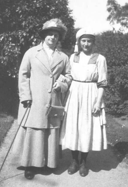 Johanne Agerskov, danish intermediary, 1873-1946, together with her daughter, Inger Agerskov, 1900-1968. Johanne Agerskov was the receiver of Toward the Light!, bublished by her husband, Michael Agerskov in Copenhagen, 1920.